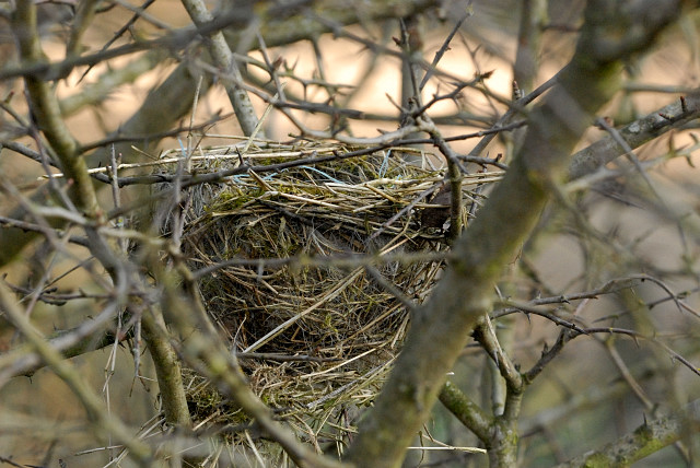 Lanius collurio from Commanster, Belgian High Ardennes .